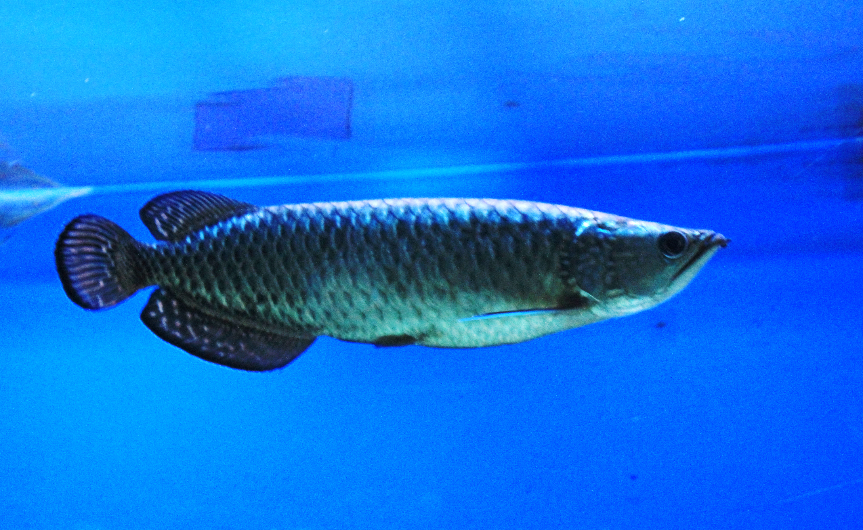 Fish Gulf saratoga Scleropages jardinii in Prague sea aquarium, Czech Republic